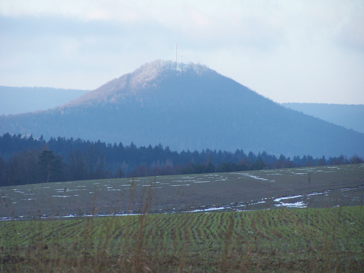 The mount Kraynberg.